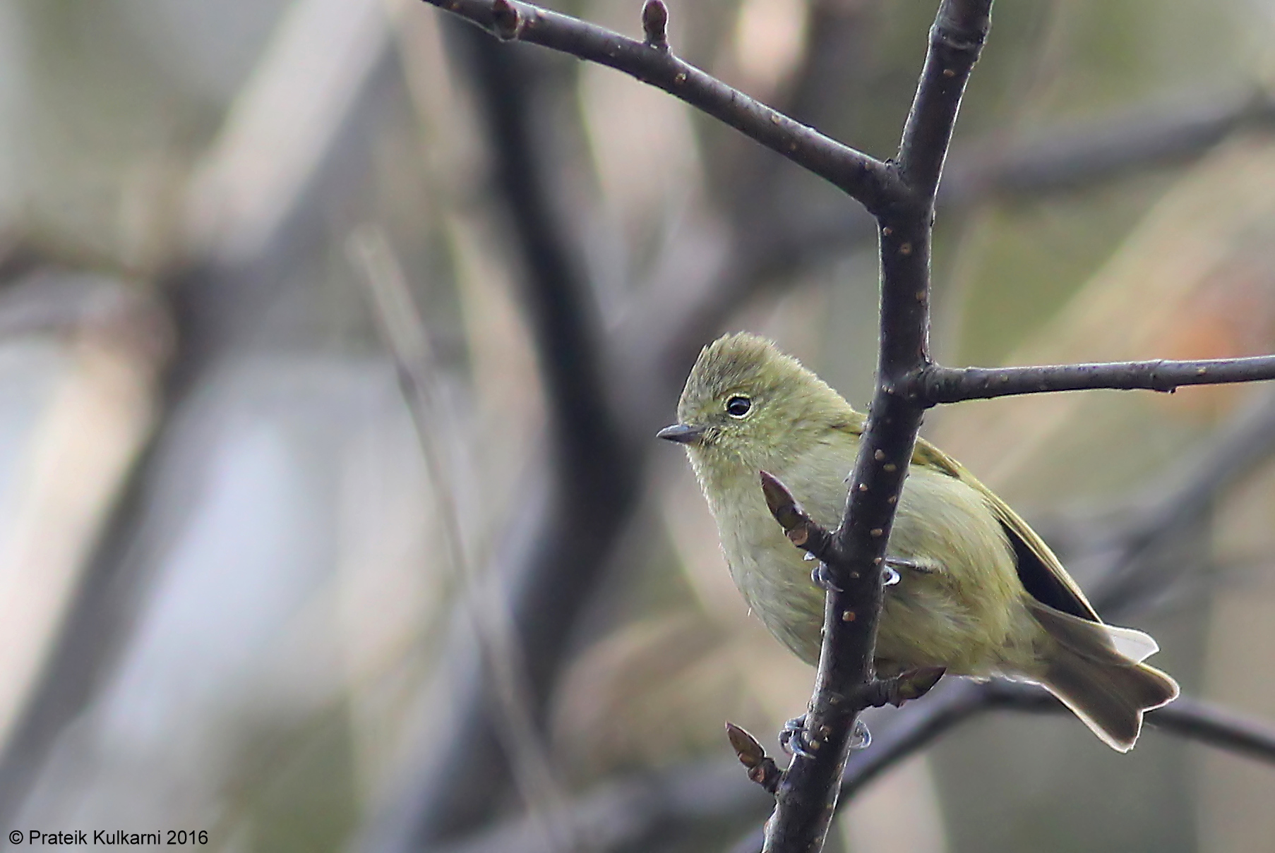 One of the uncommon birds in Uttarakhand, this bird can be seen at higher altitudes of Himalayas.